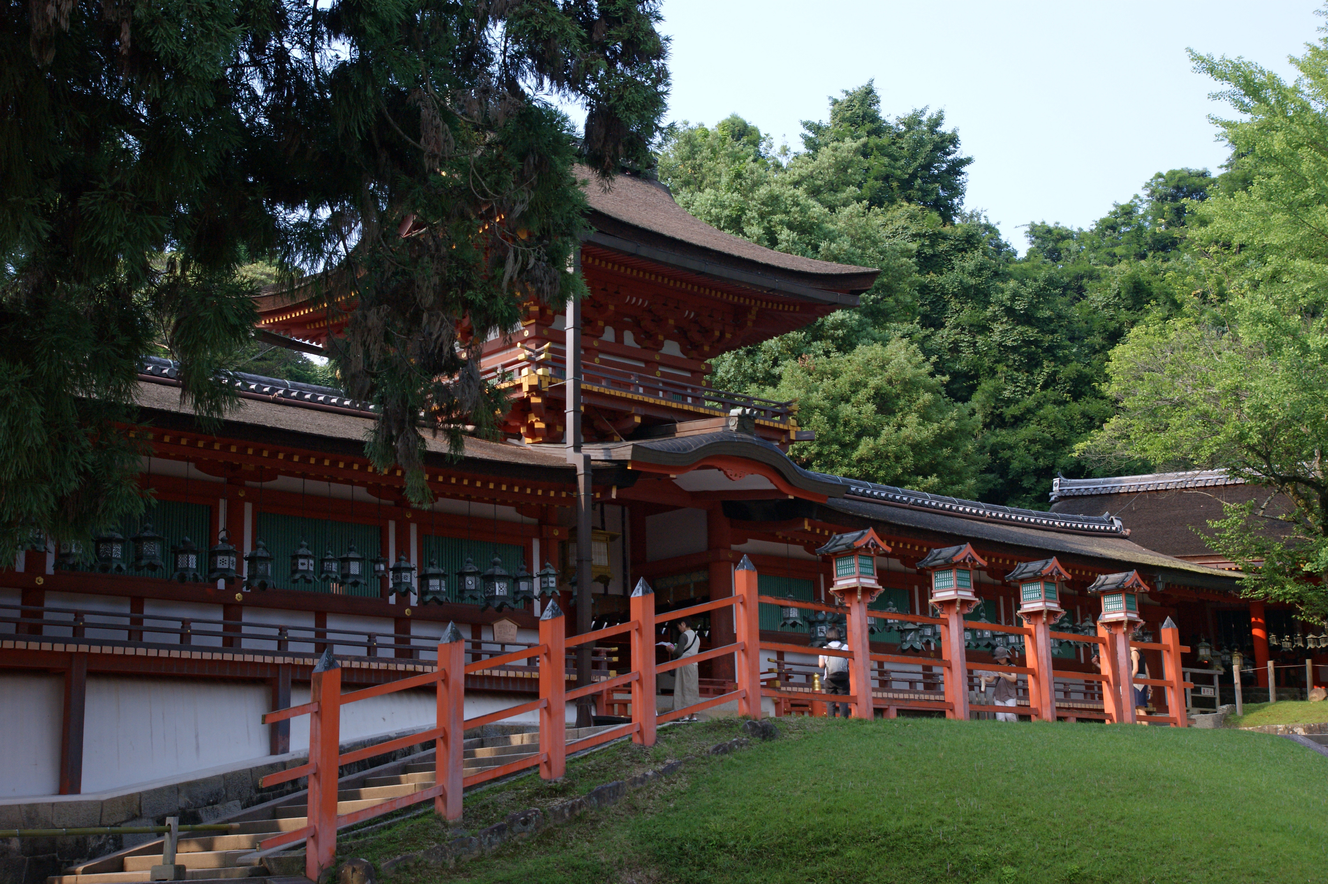 Kasuga-taisha in Nara, Nara prefecture, Japan